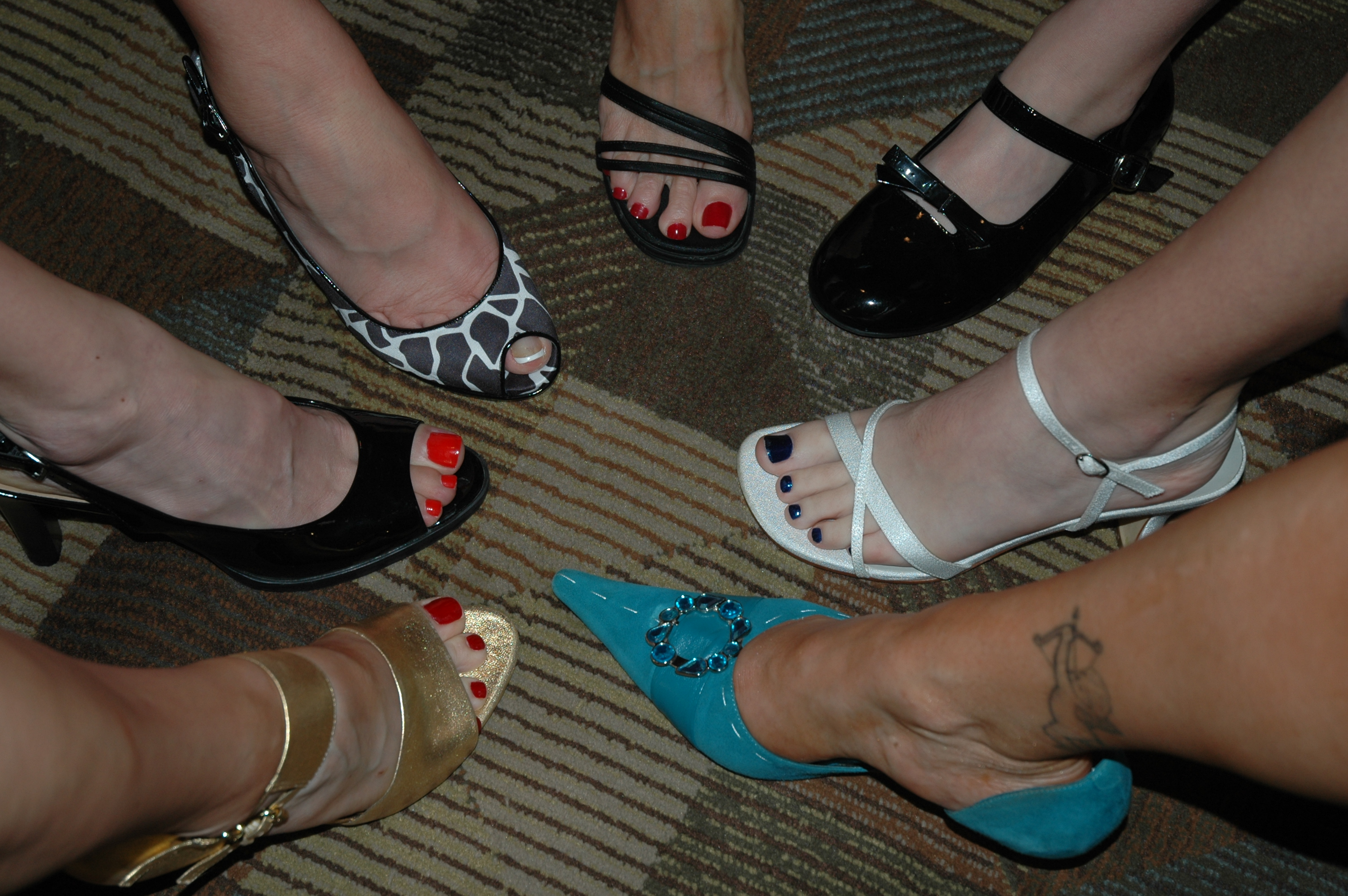 different types of shoes!